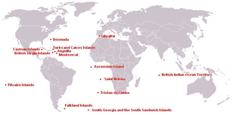 Location of the British Overseas Territories (British Antarctic Territory and Sovereign Base Areas of Cyprus not shown)